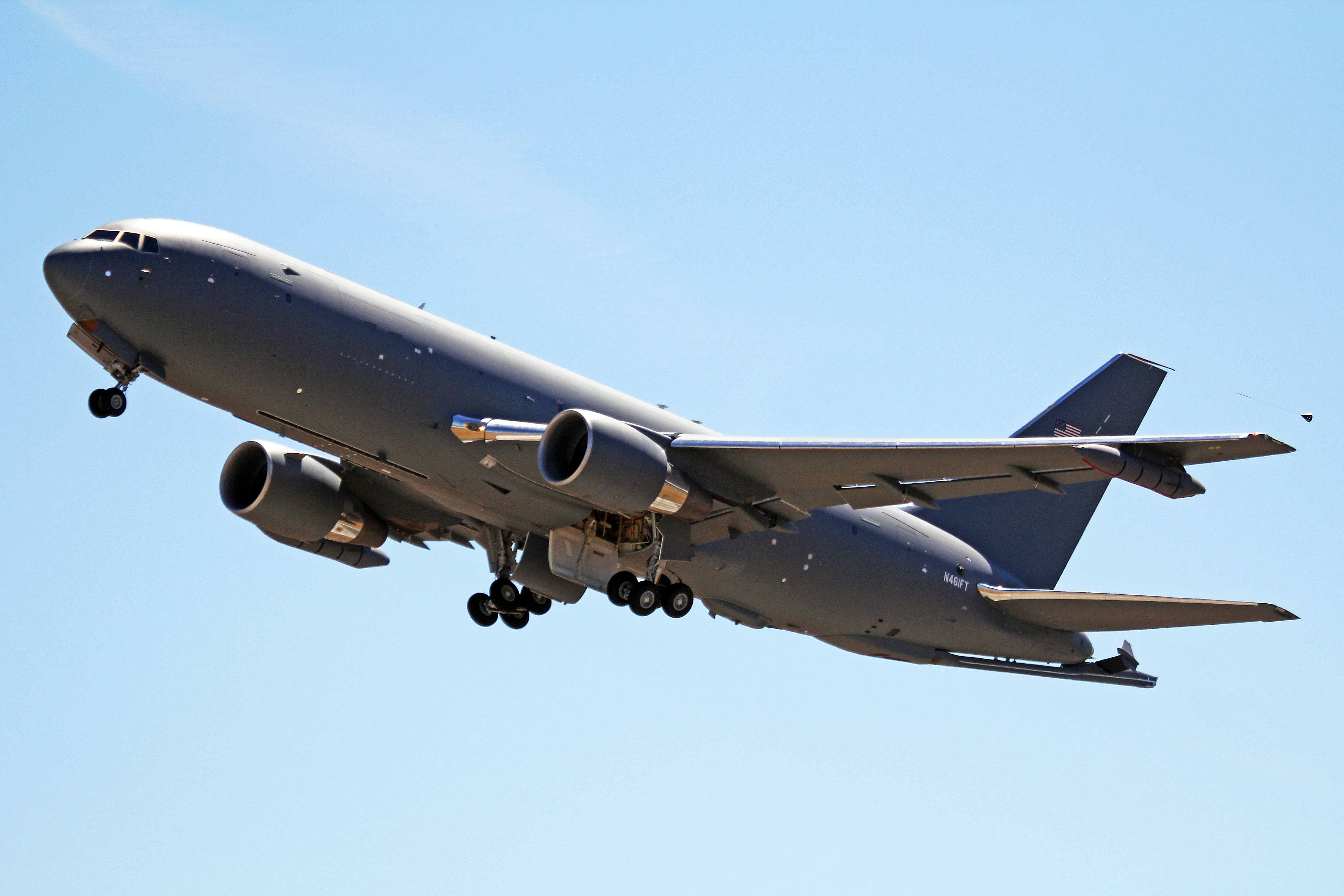 N461FT 4 Boeing 767-2C(2LK)-KC-46A Boeing Aircraft Co (USAF) PAE 29JUL15